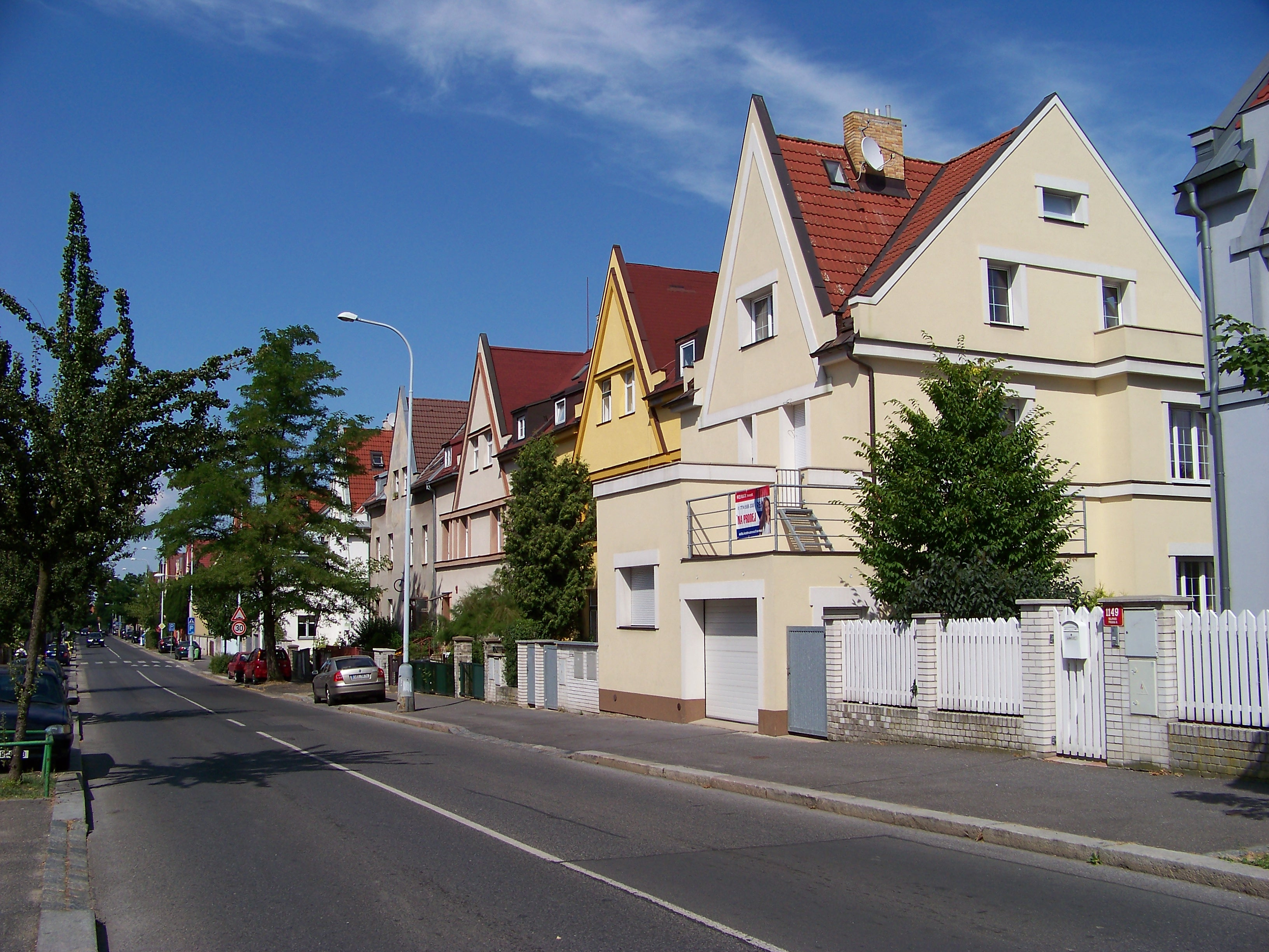 Prague-Dejvice, the Czech Republic. Hanspaulka, Na pískách 48–62. - OpenStreetMap(Info)